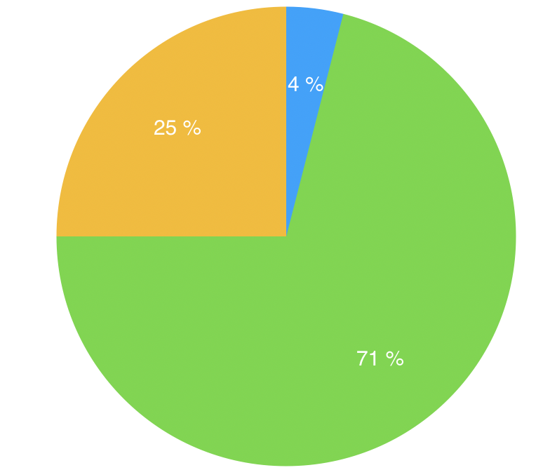 Green-waterpower, Orange-renewables, Blue-fossil fuels.